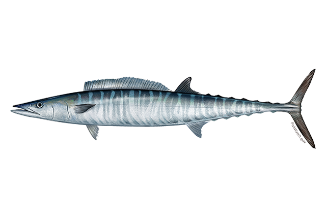 Atlantic wahoo, Acanthocybium solandri